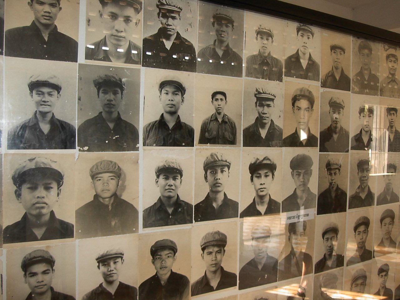 Photo by User: Adam Carr